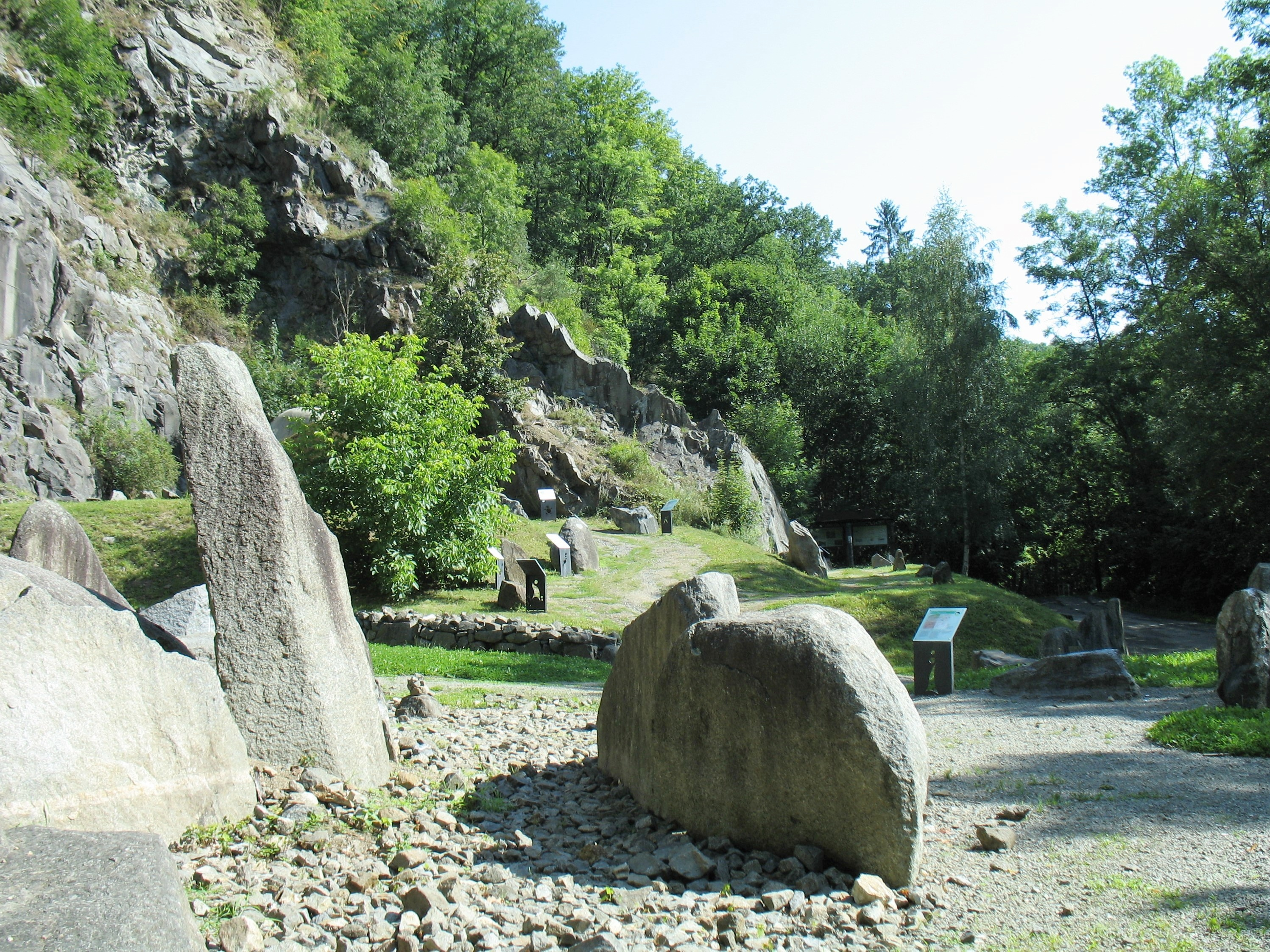 Geological exhibition in Tábor, Czech Republic